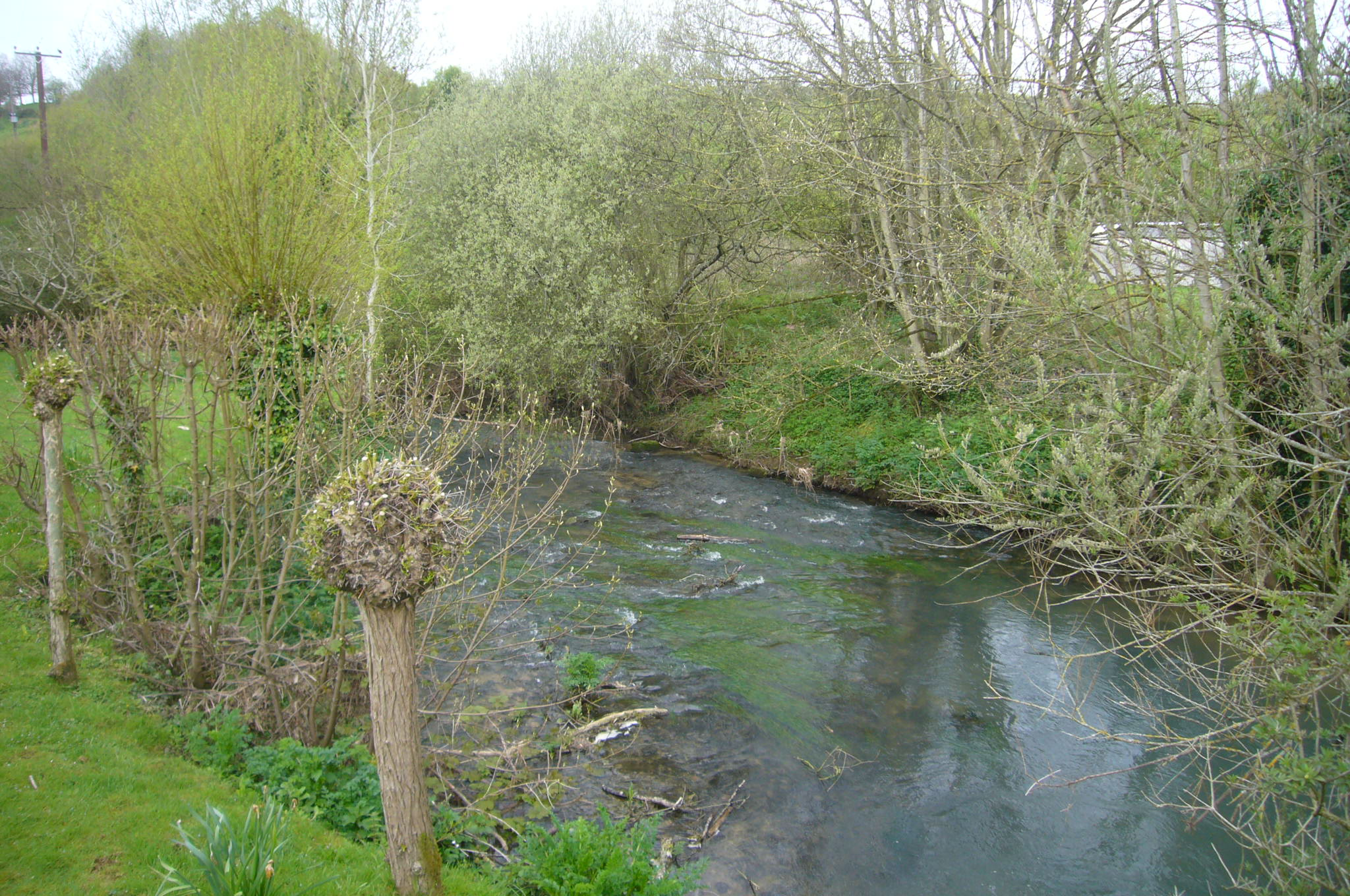 River Bybrook